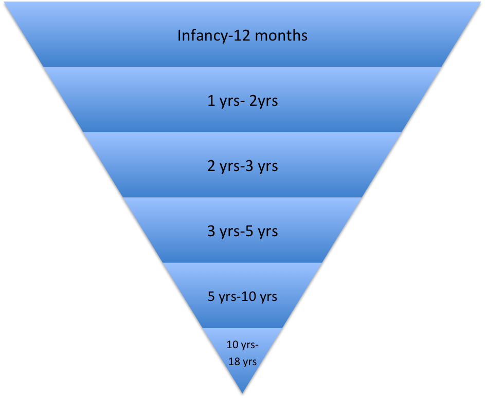 This pyramid demonstrates the relationship between interpersonal communication and the stages of development. The downward formation of the triangle represents how much language is developed during that growth stage. The greatest amount of development occurs in the stage of infancy. As the triangle gets smaller, the development occurs less frequently and in a lesser amount.